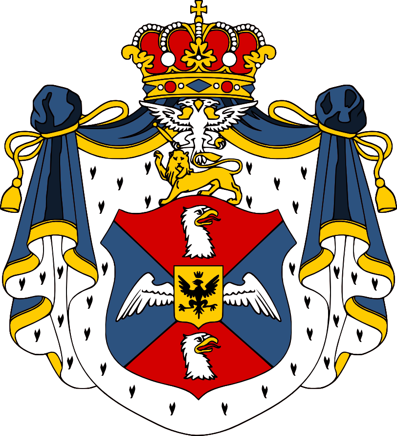 Coat of Arms of Daniel I (Danilo I) of Montenegro. This Coat of Arms was depicted as such in the personal diary of Prince Daniel II (son of King Nicholas I of Montenegro).